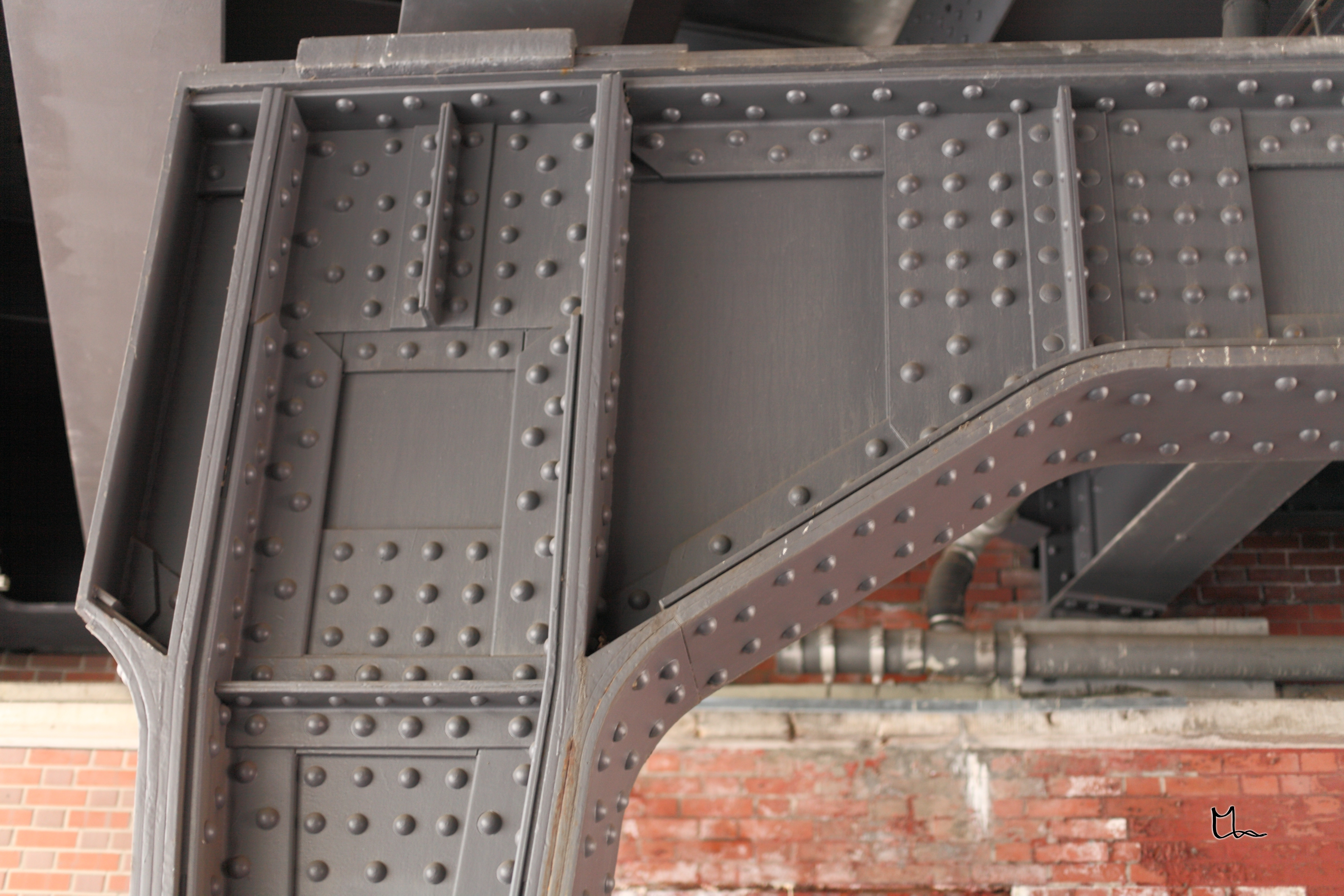 Complex riveted joint with very much construction detail